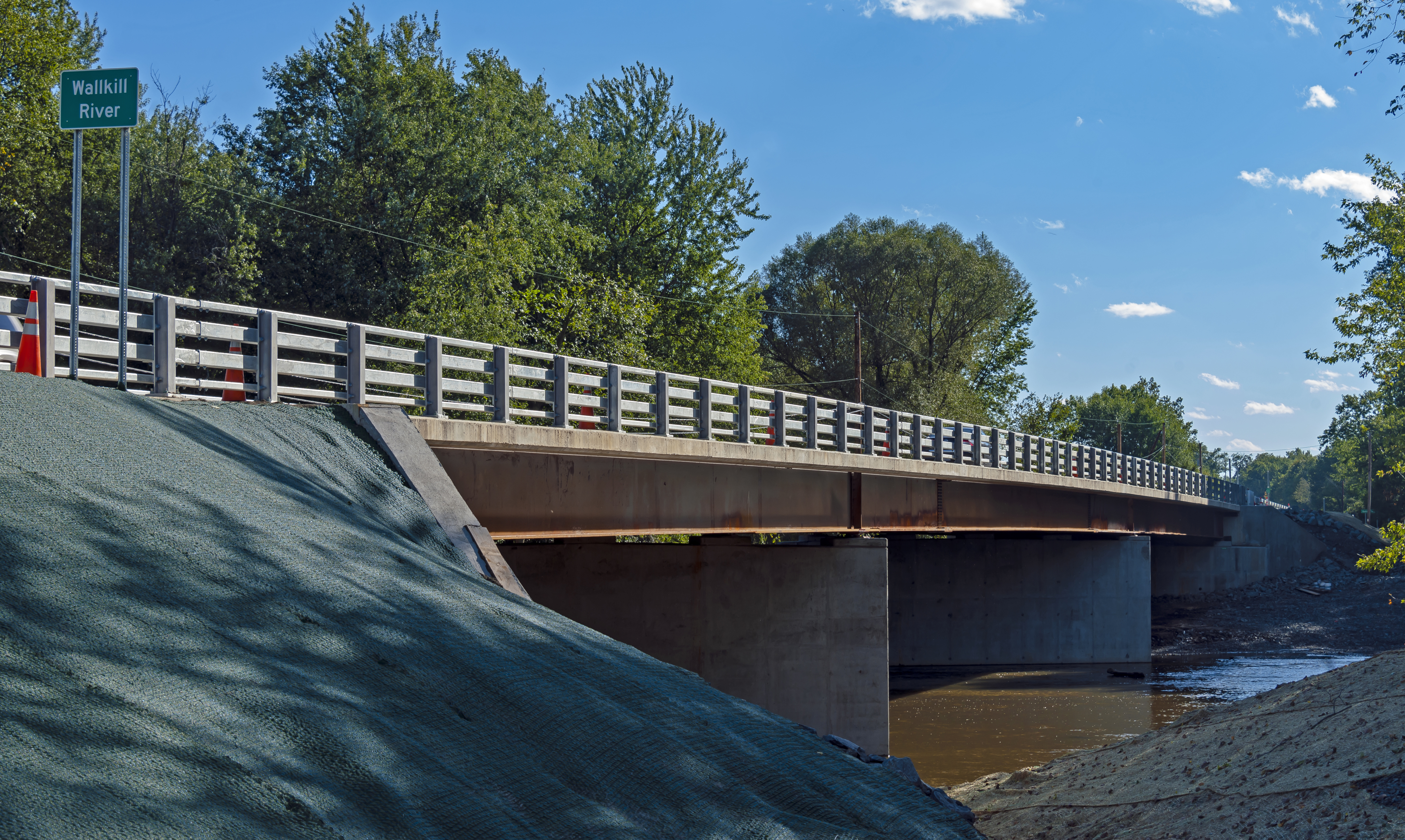 New Bodine's Bridge carrying NY 211 across the Wallkill River, shortly after its 2015 opening.